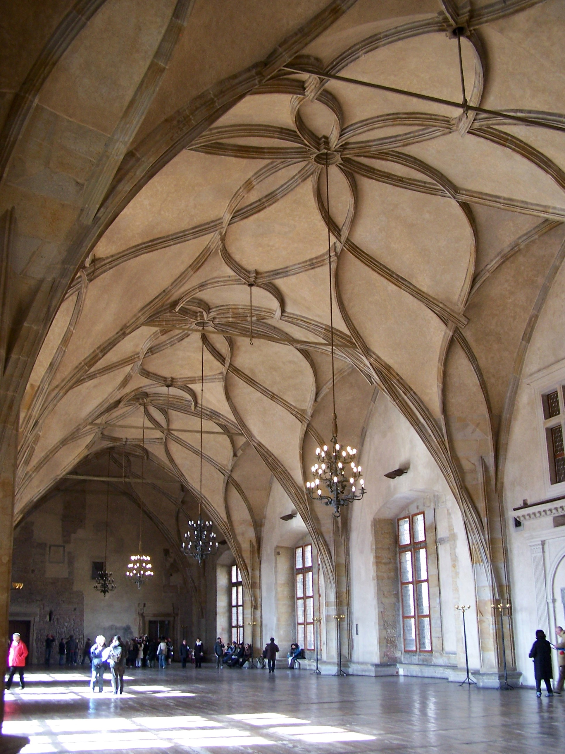 The Vladislav Hall of Prague Castle.